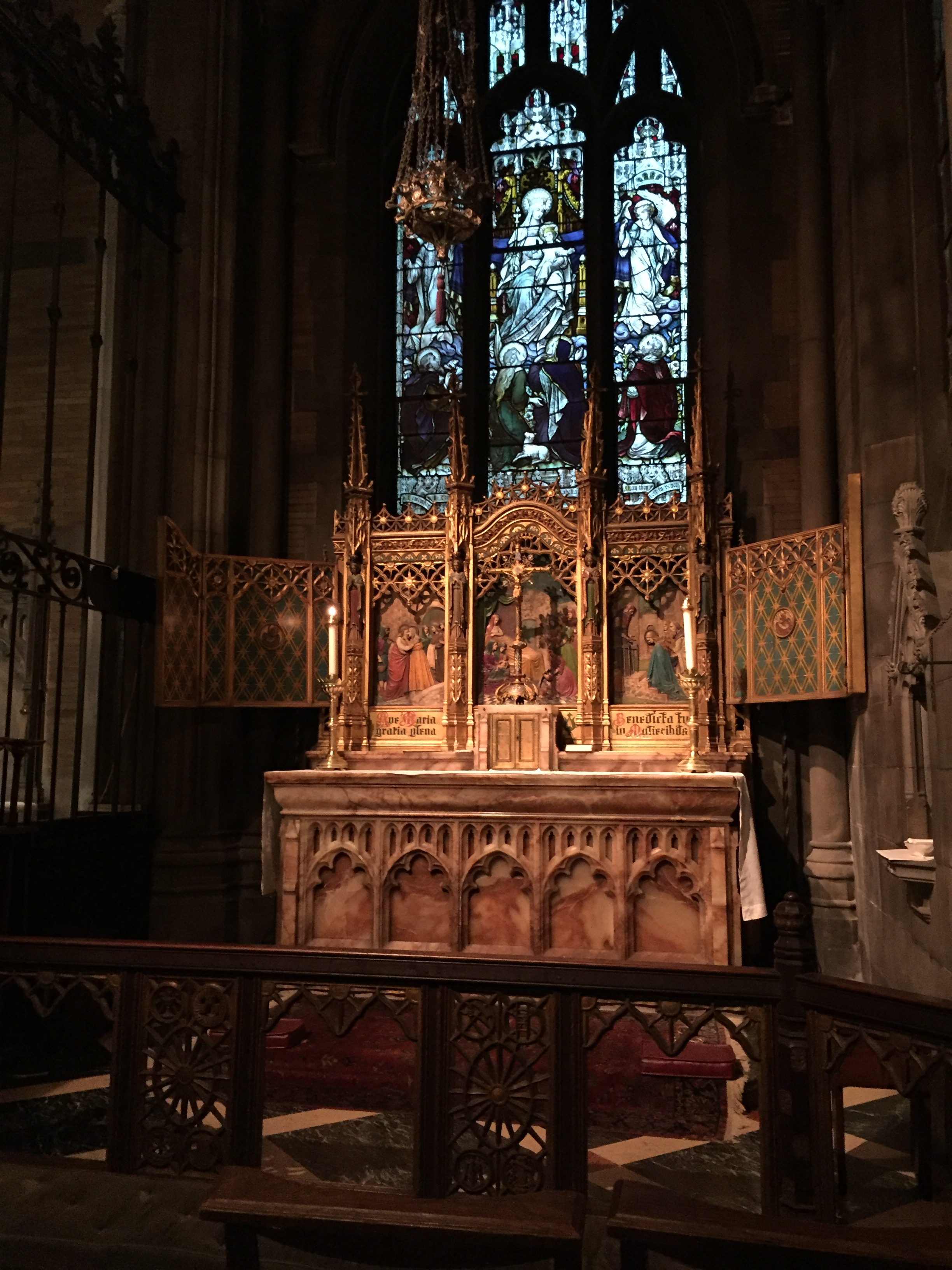 Interior of Lady Chapel, St. Ignatius of Antioch Episcopal Church, New York